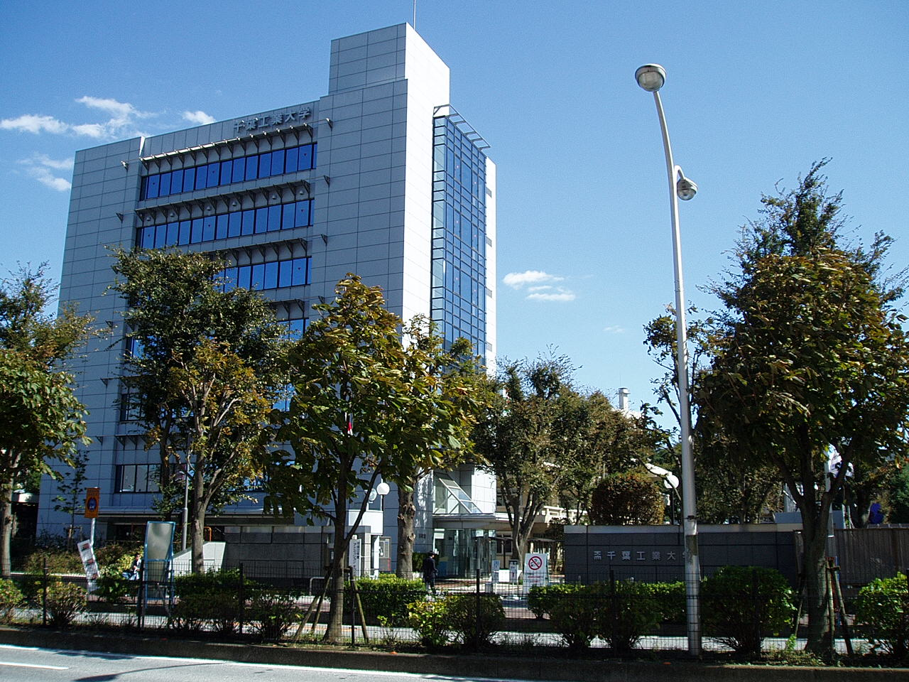 The main gate of Tsudanuma Campus, Chiba Institute of Technology.Located in Narashino, Chiba Pref., Japan.